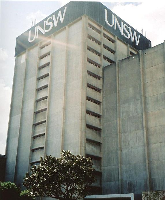 Image of the UNSW Library Building